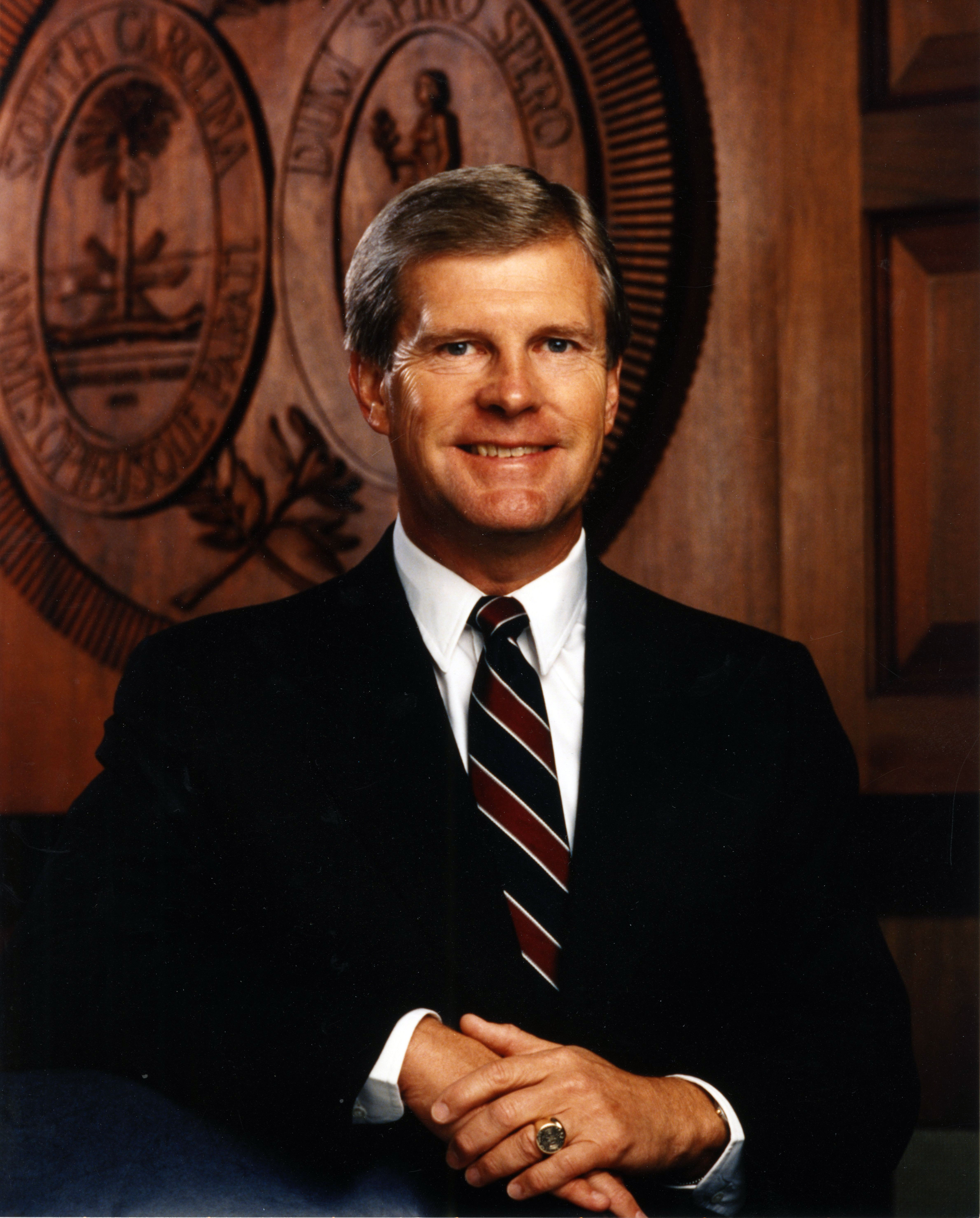 A portrait of Governor Carroll Campbell of South Carolina.